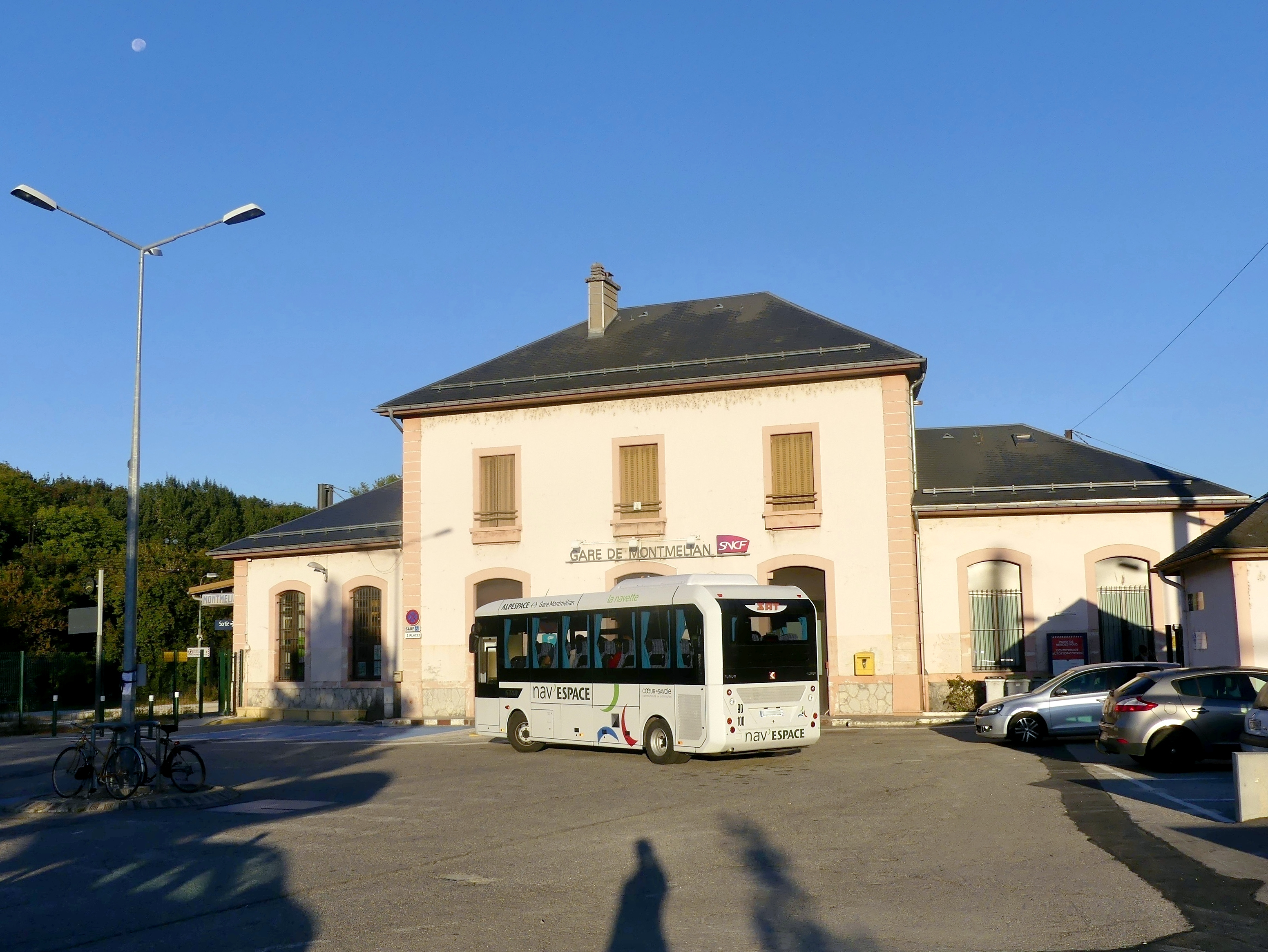 Sight, in the morning, of Nav'Espace shuttle from Montmélian railway station to Alpespace buiness park, in Savoie, France.